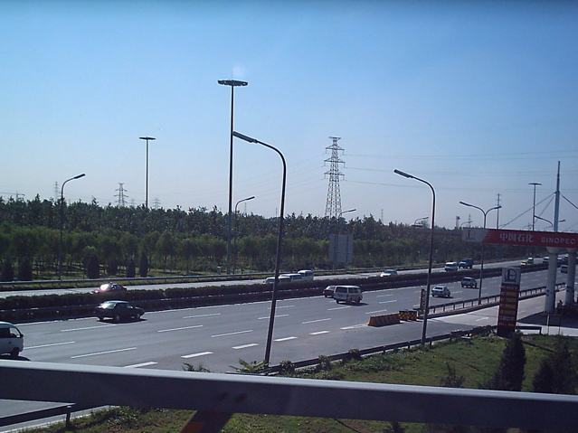 Eastern 4th Ring Road.